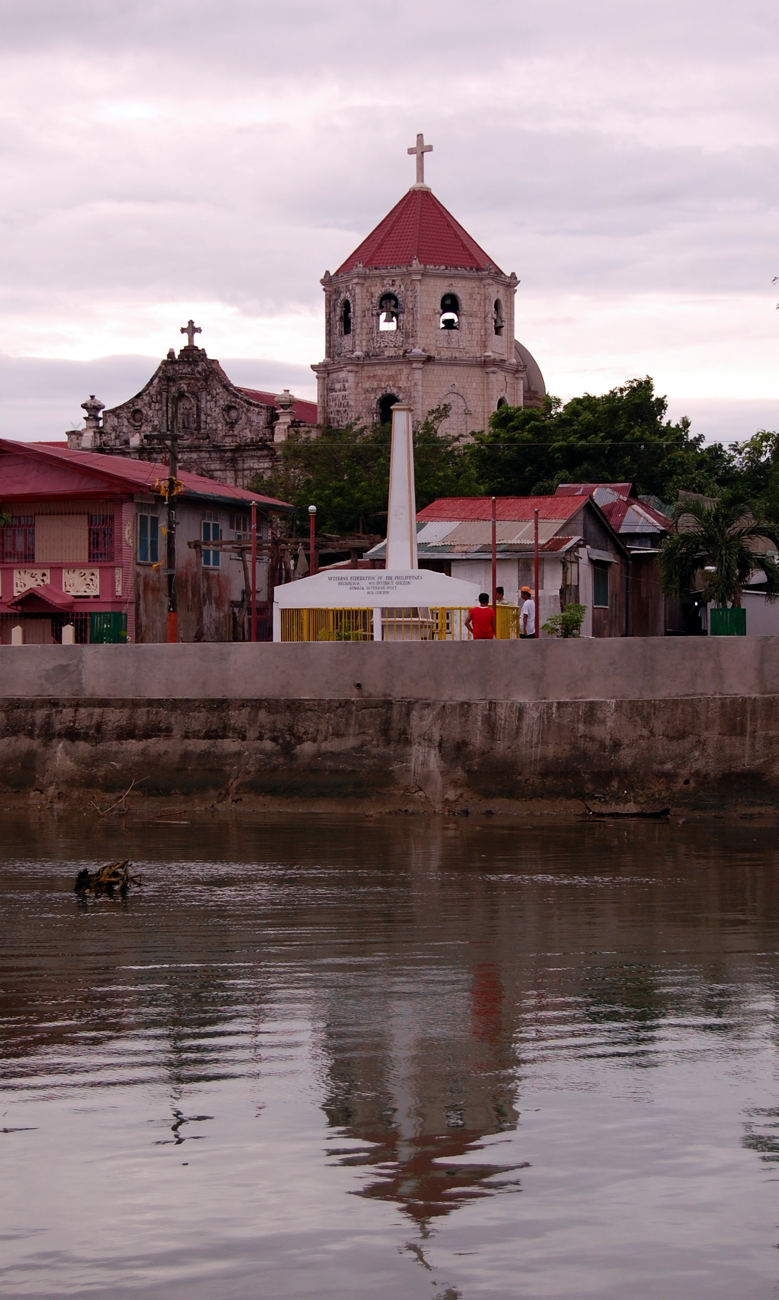 Gumaca Cathedral exterior